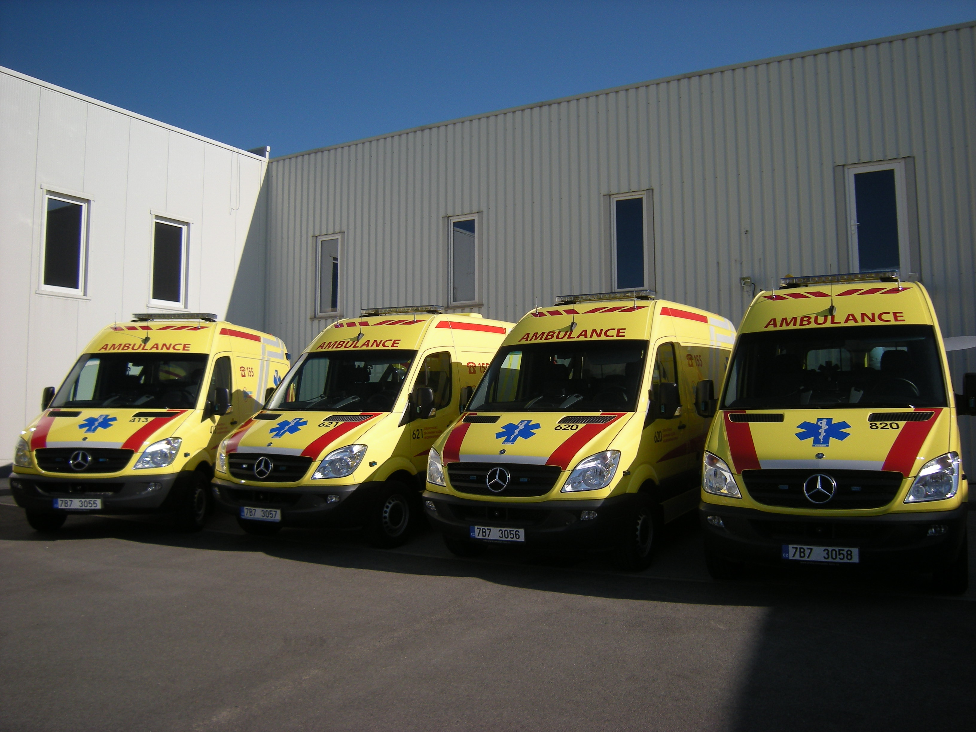 New ambulance vehicles Mercedes-Benz Sprinter of the Emergency Medical Service of South Moravian Region, Brno, South Moravian Region, Czech Republic Česky: Nová sanitní vozidla Mercedes-Benz Sprinter Zdravotnické záchranné služby Jihomoravského kraje při slavnostním předávání na stanici letecké záchranné služby Kryštof 04